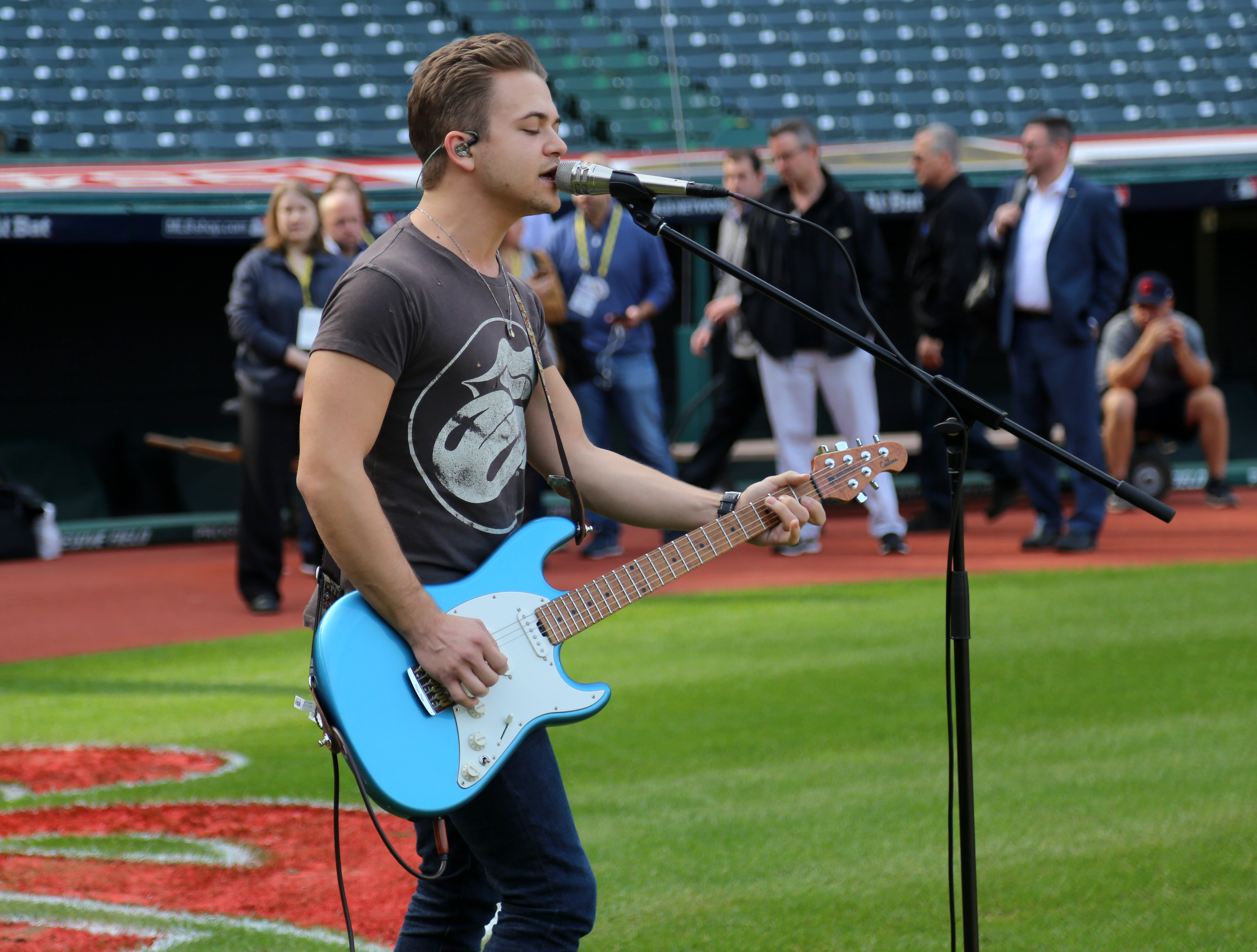 Five-time Grammy nominee Hunter Hayes performs his national anthem soundcheck, hours before Game 6 of the World Series.